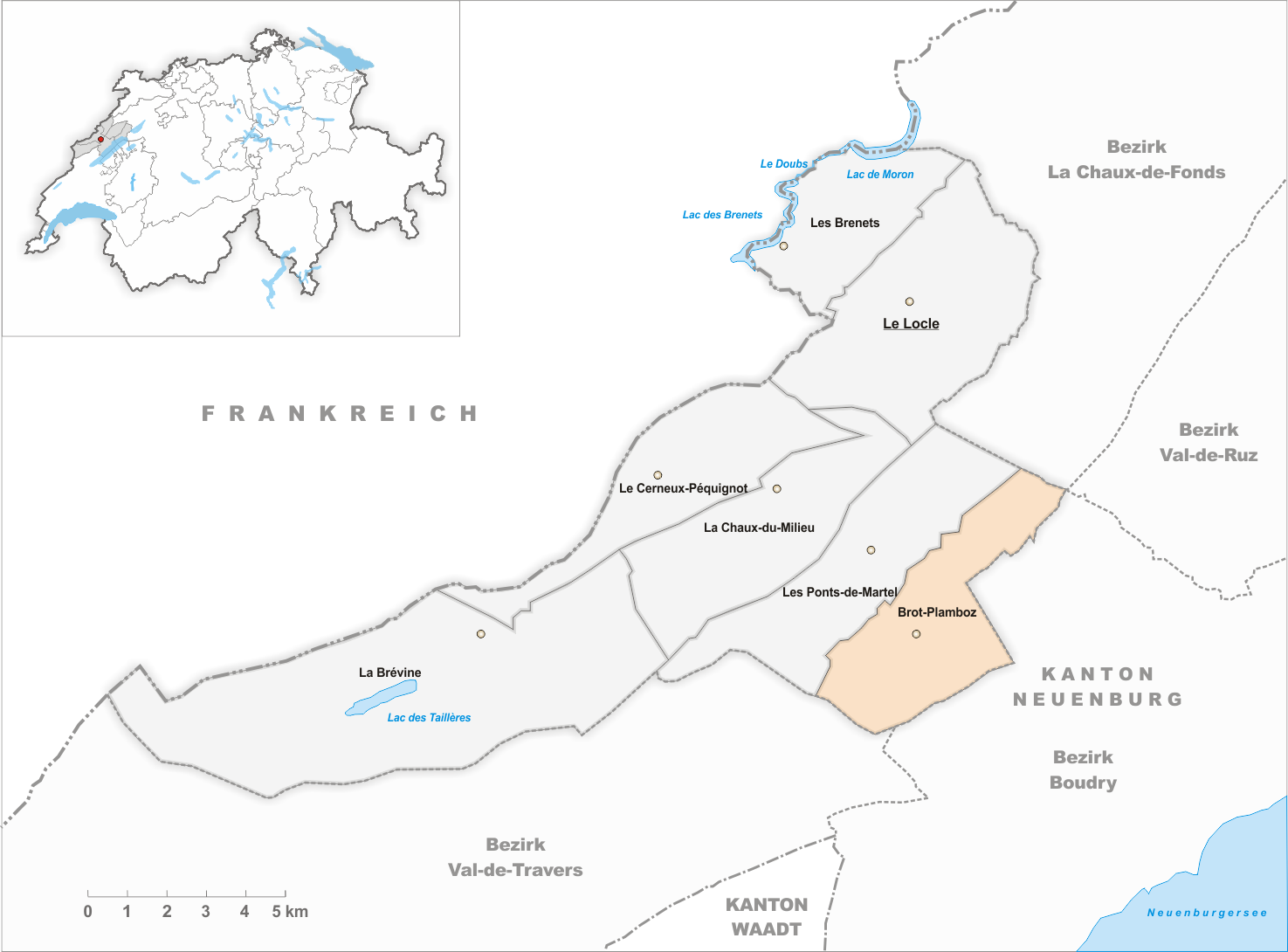 Municipality Brot-Plamboz